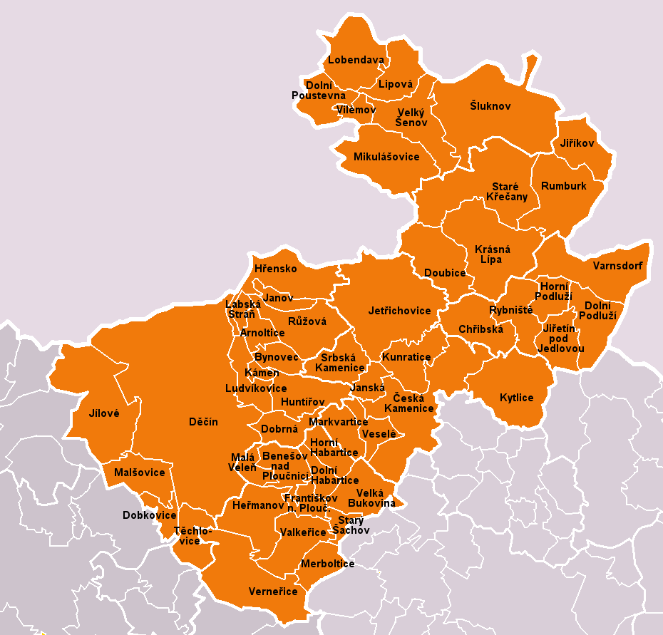 Municipalities of Děčín District as of January 1, 2010 (52 municipalities in total). White lines of variable thickness show boundaries of municipalities, administrative areas, districts, regions and nations.